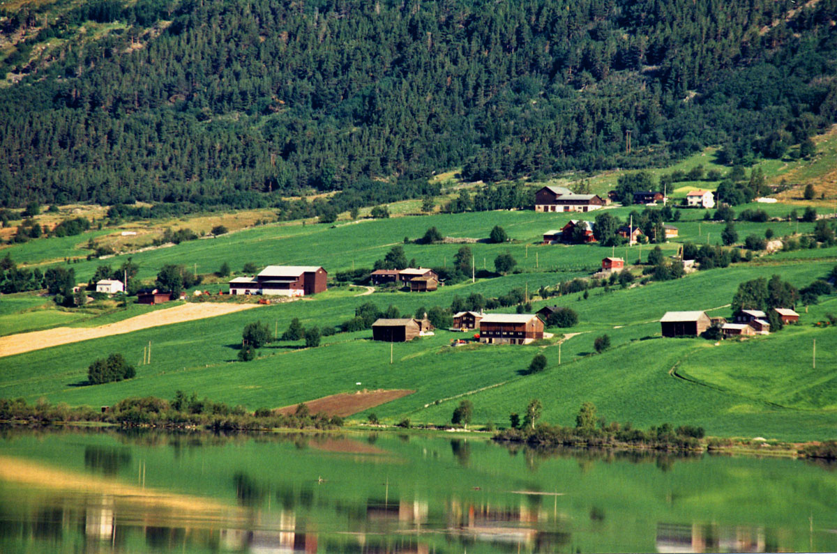 Photo of "solsida" ("sunny side") of Skjåk